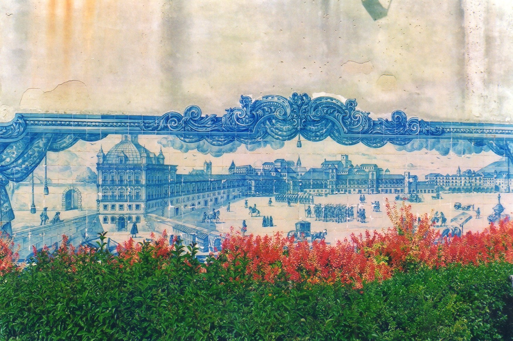 Azulejo, Panoramic view of Lisbon